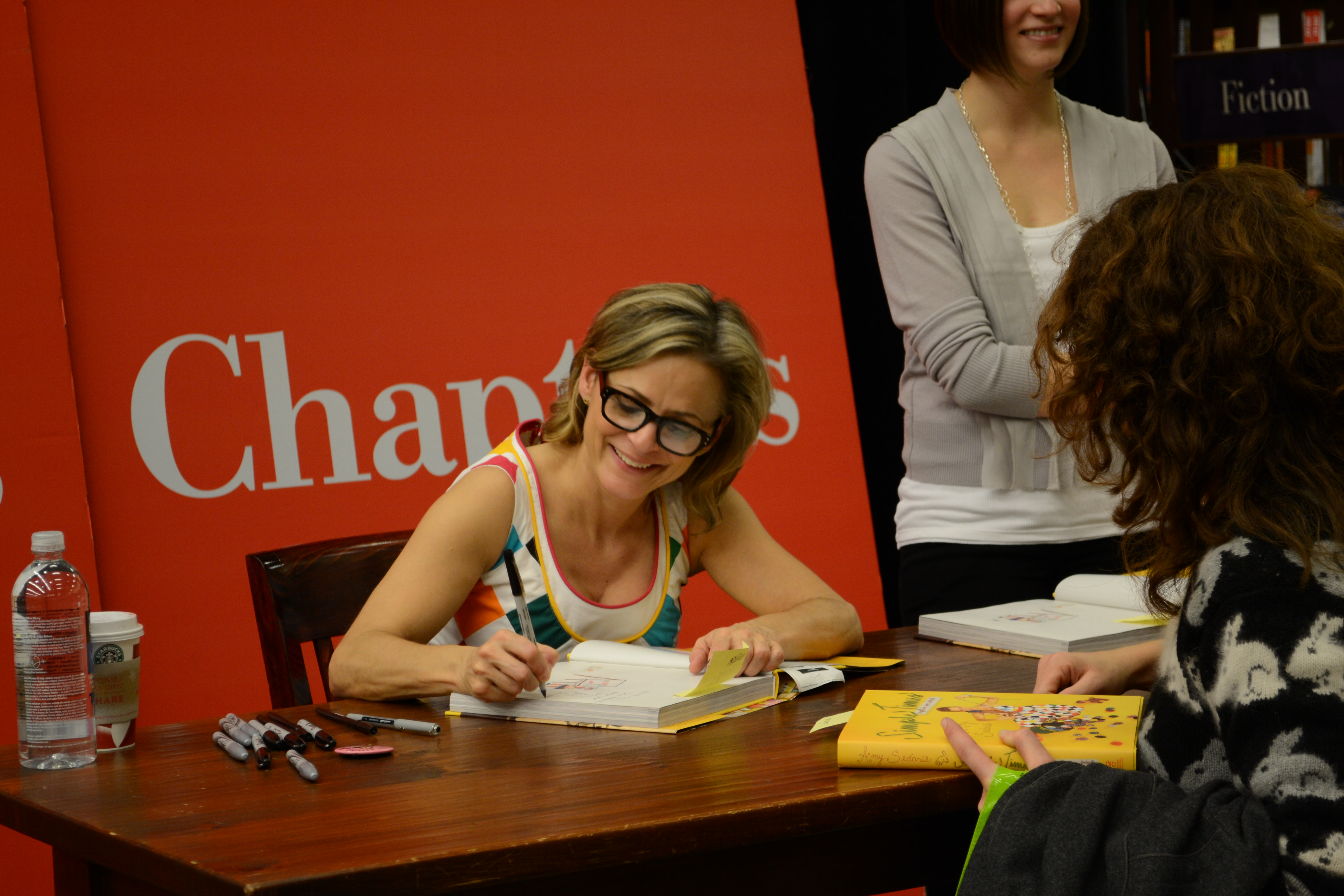 Amy Sedaris book signing (Simple Times) in Toronto.